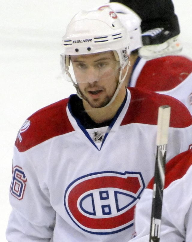 Montreal Canadiens defenseman Josh Georges during Game 5 of a 2010 playoff match-up against the Pittsburgh Penguins at Mellon Arena in Pittsburgh, PA, May 2, 2010.